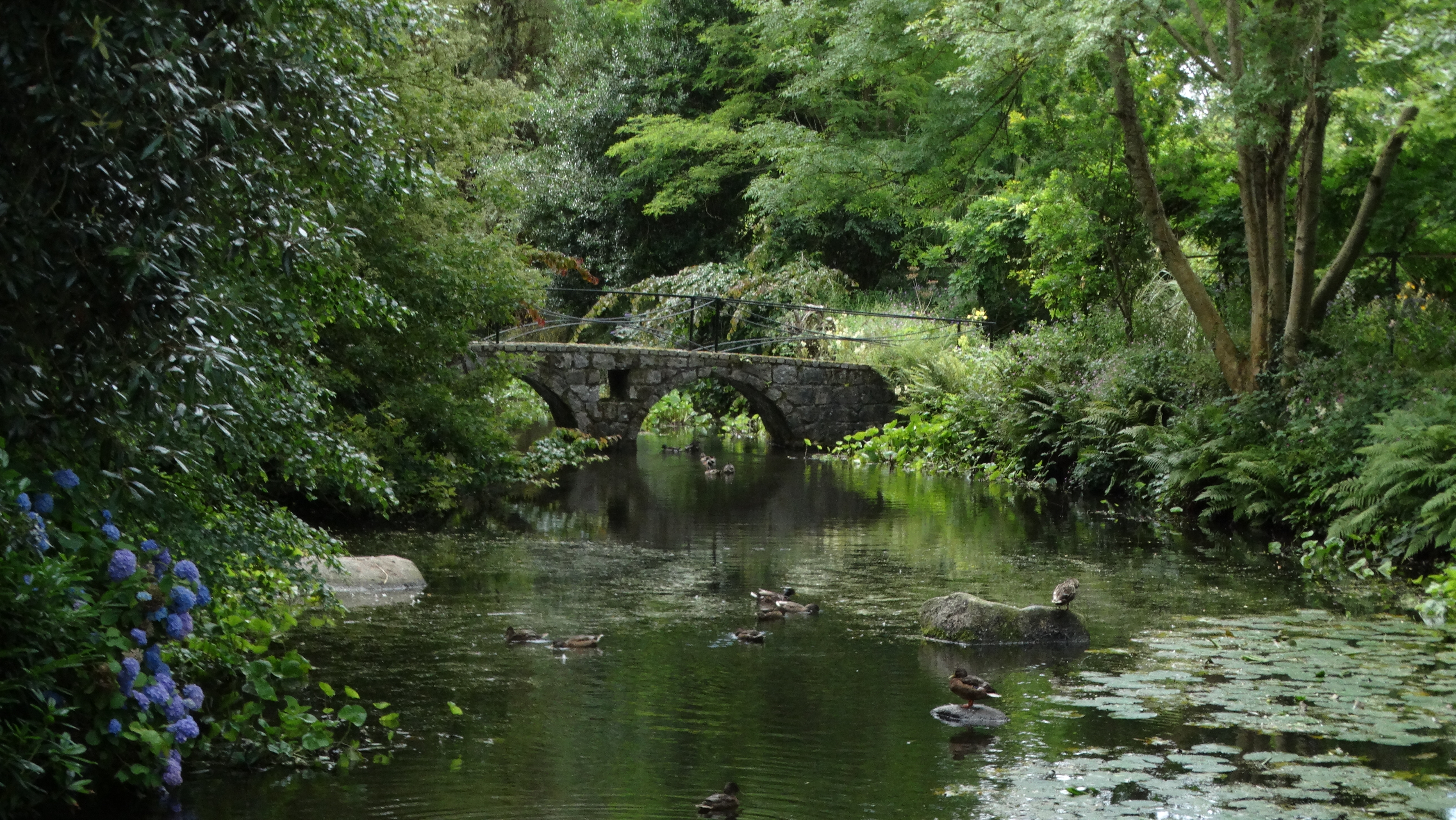 River Slaney at Altamont by Colin Park